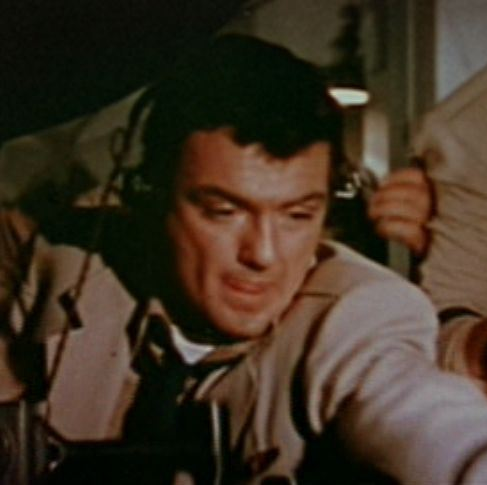 Screenshot showing William Campbell, John Wayne, and Robert Stack from the trailer to the film The High and the Mighty (1954).